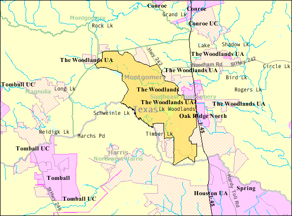 Map of The Woodlands CDP, Texas